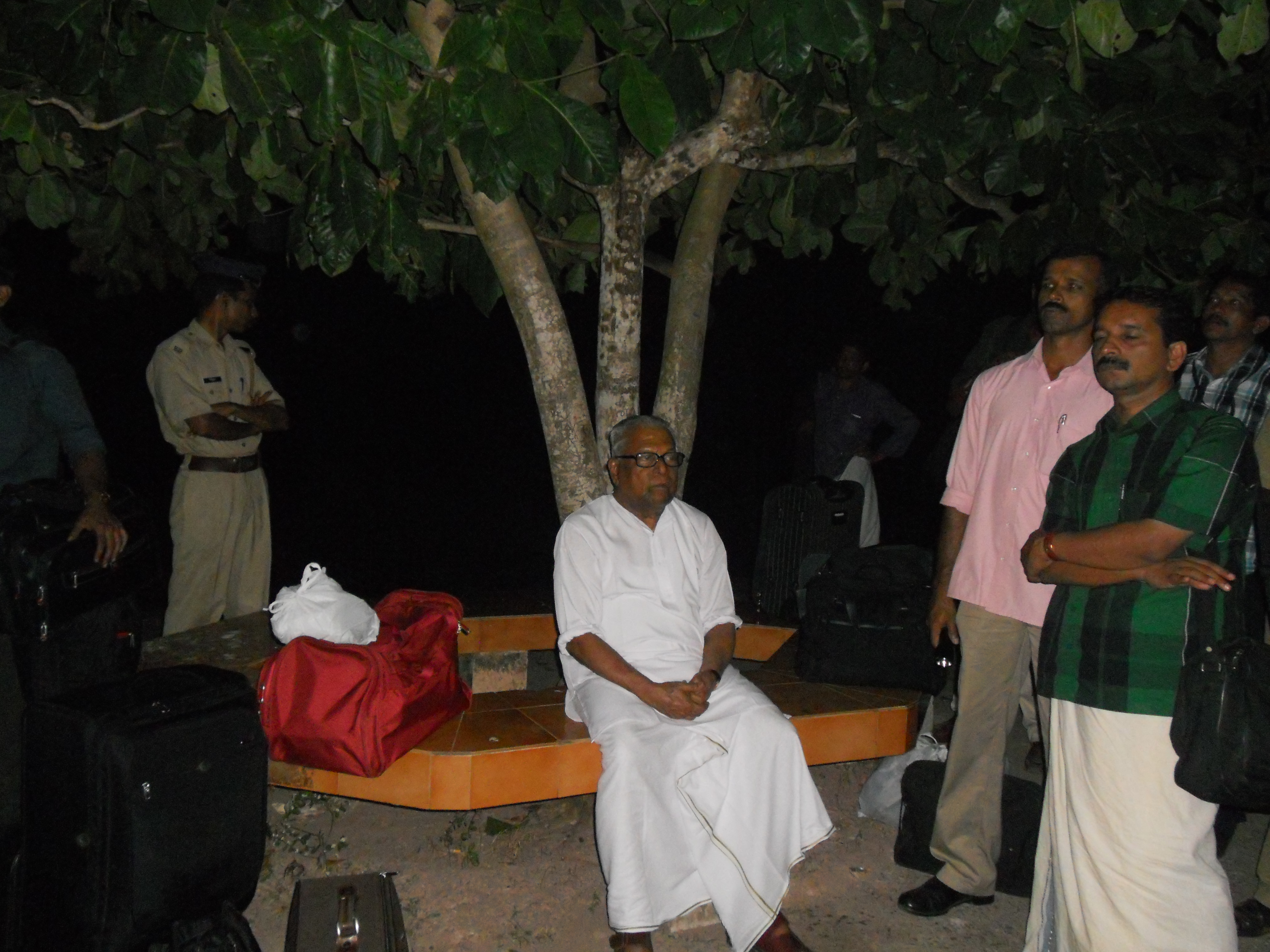 V.S.Achudhanandhan waiting for train at Payannur Railway station